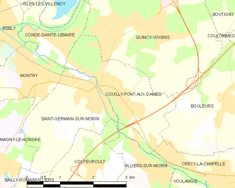 Map of French municipality Couilly-Pont-aux-Dames